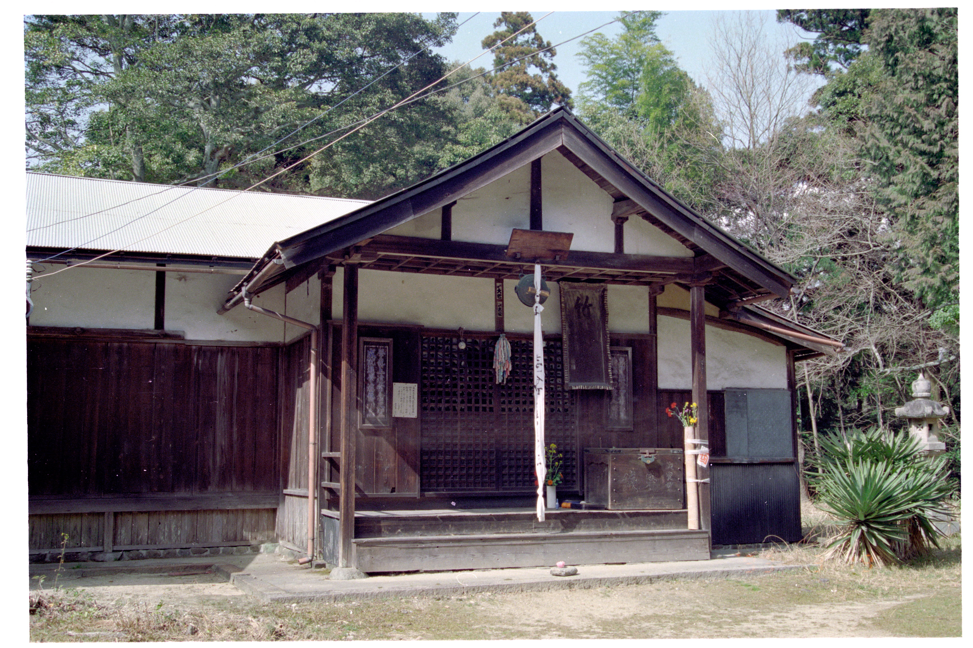 Old Main Hall, Chikurin-ji, Ikoma, Nara, Japan